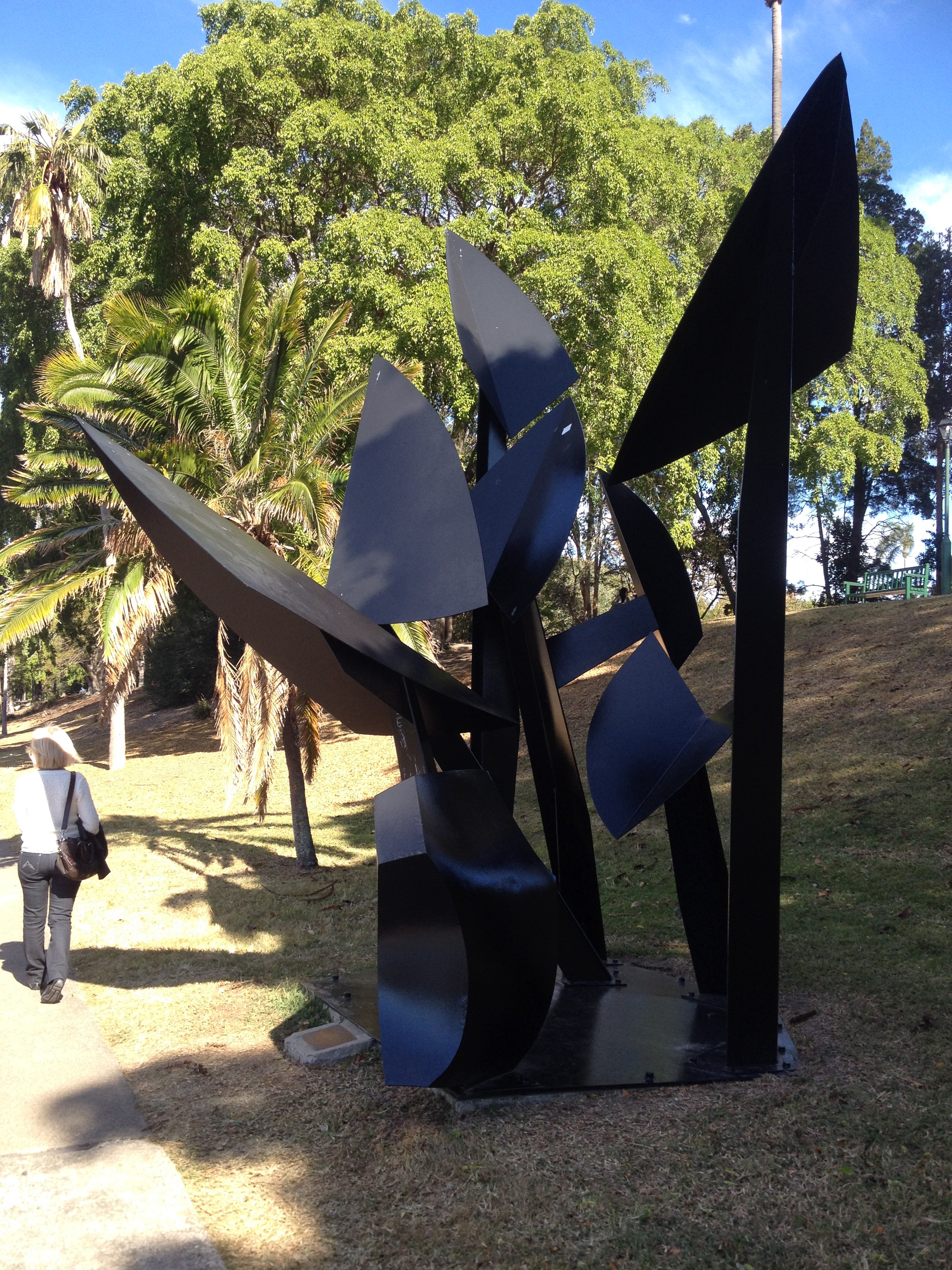 Plant Form by Robert Juniper (1988), Brisbane City Botanic Gardens. From the World Expo 88 sculpture collection